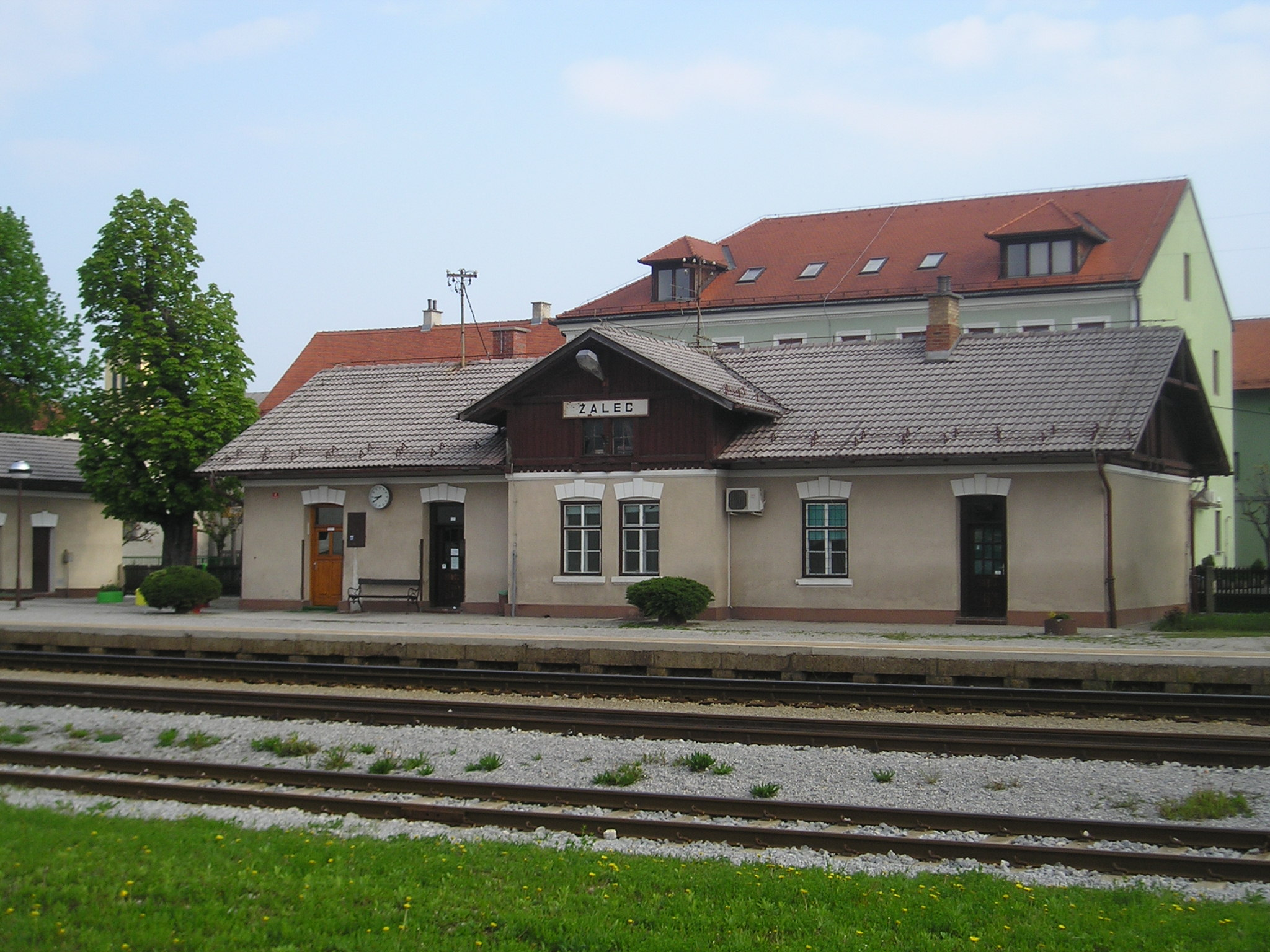 Train station in Žalec, Slovenia